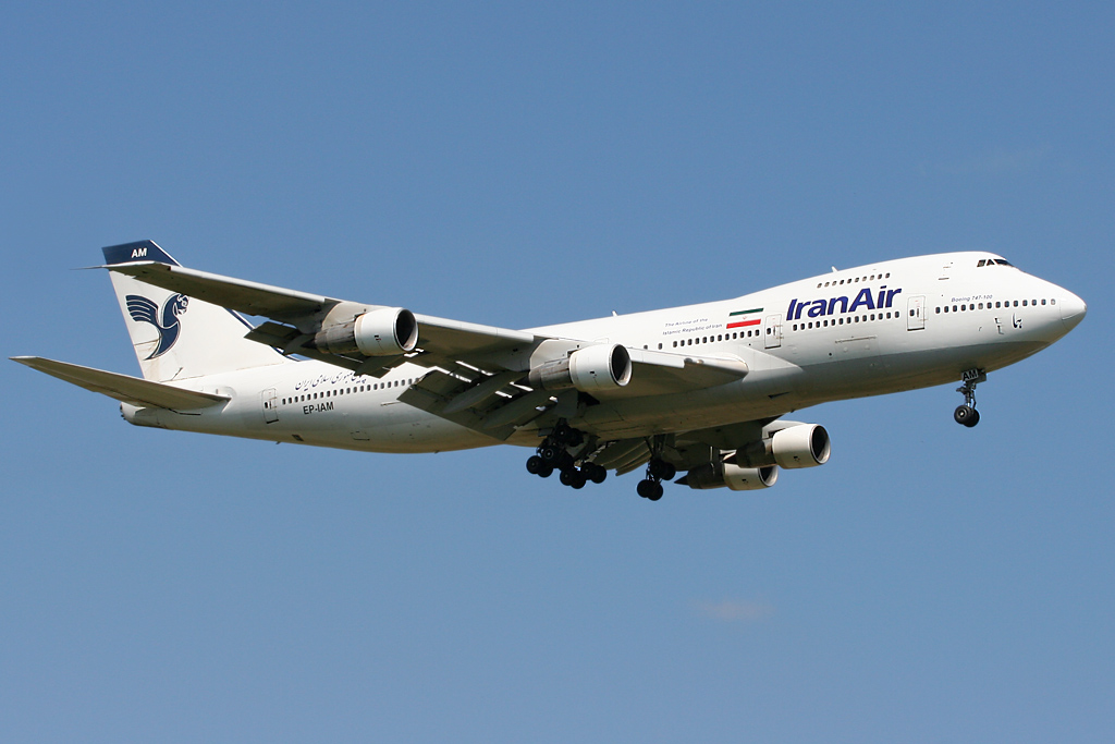 An Iran Air Boeing 747-100B landing at London Heathrow Airport in May 2009